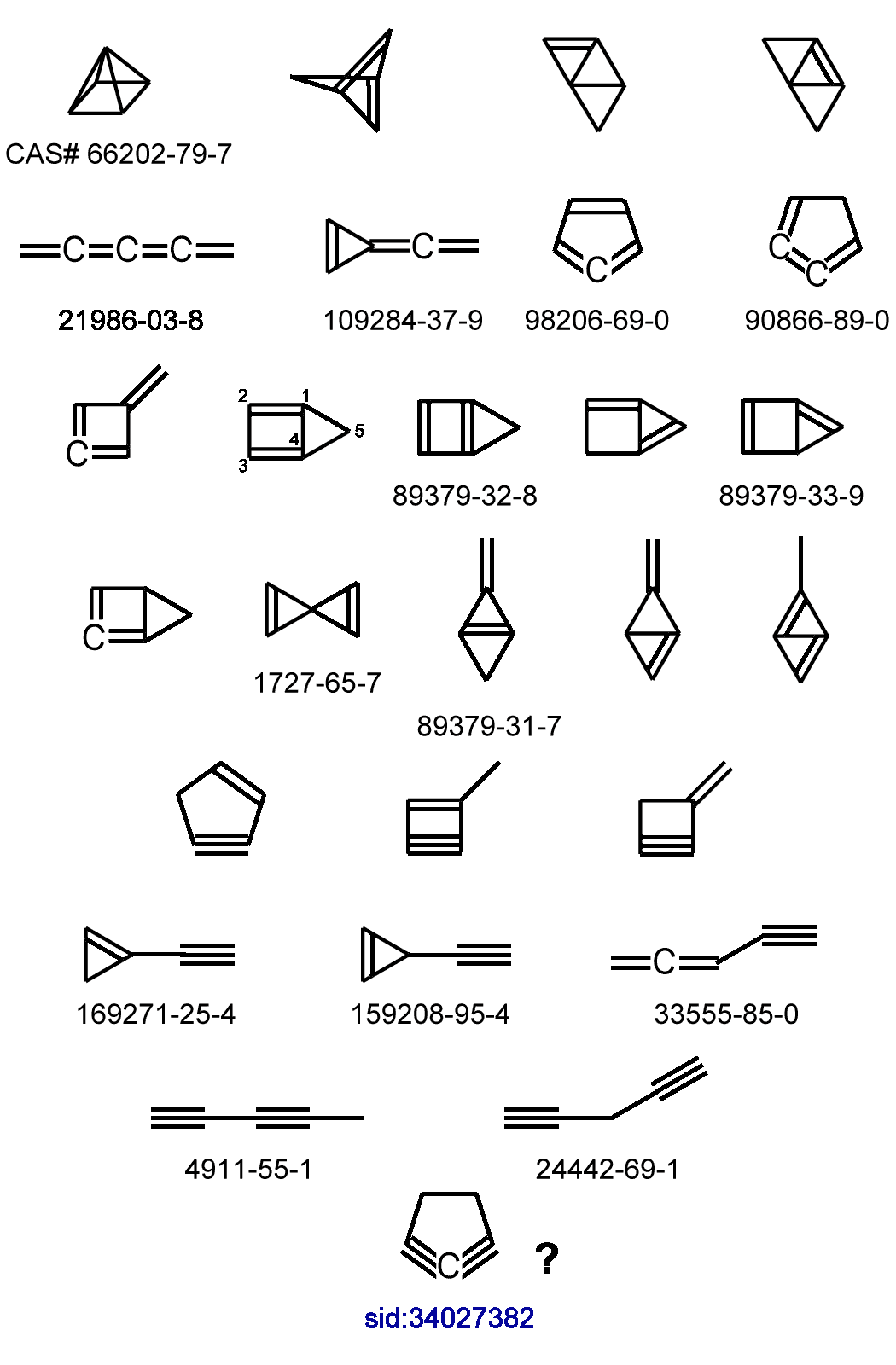 C5H4 isomers